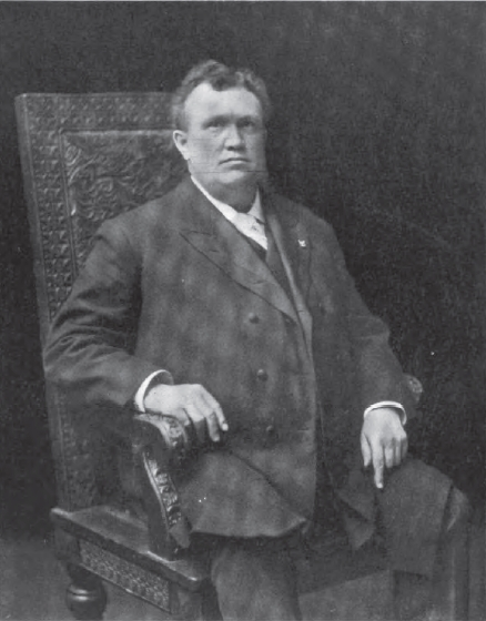 James Joseph Butler (1862-08-29 – 1917-05-31), U.S. Representative from Missouri (1903-1905).